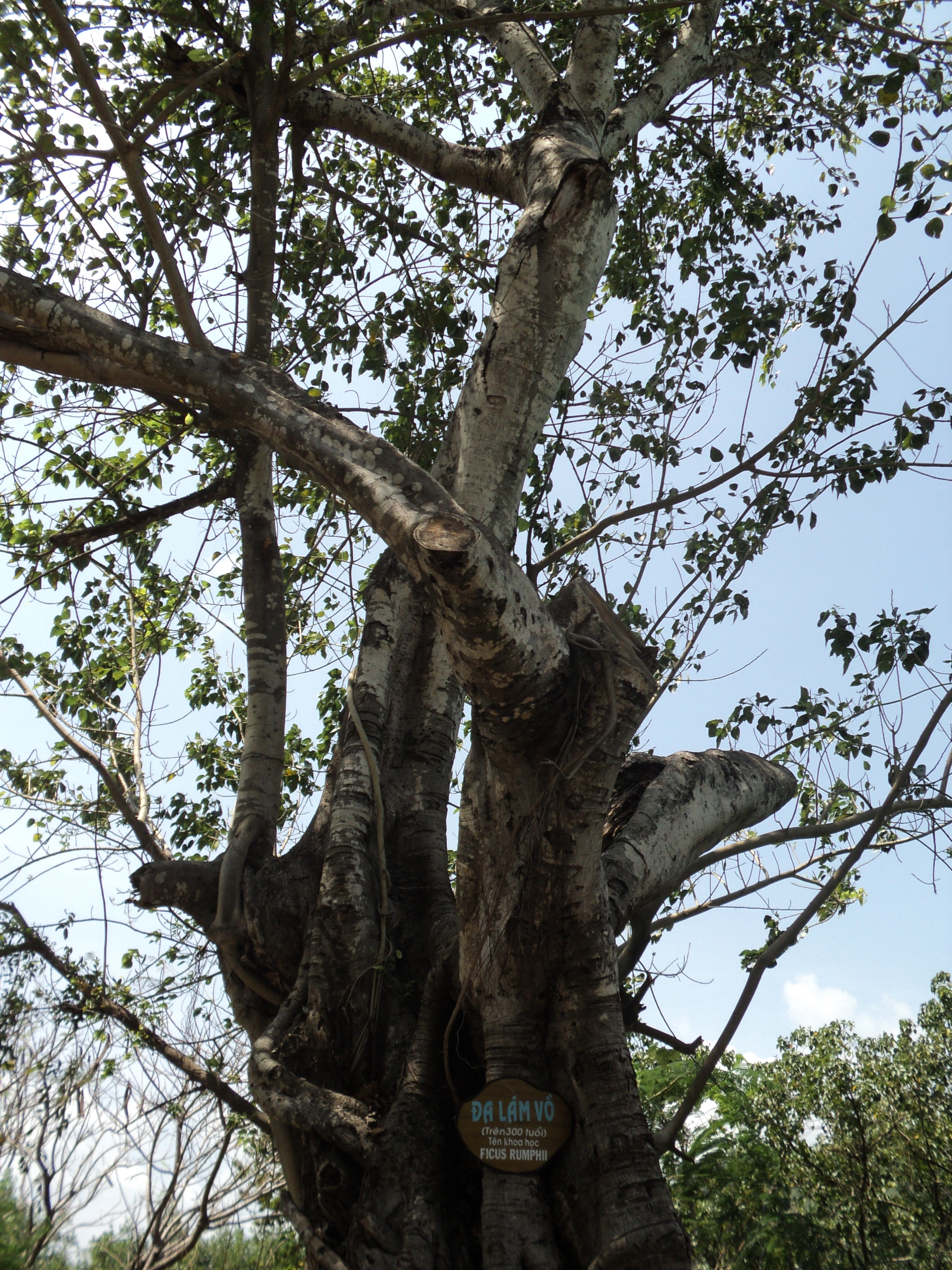 Ficus rumphii, older than 300 years.